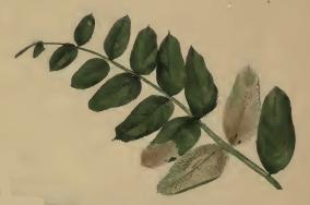 Stainton’s Natural History of the Tineina (1855–1873): Cosmopterix schmidiella a leaf of Vicia sepium with leaflets discolourd by larva